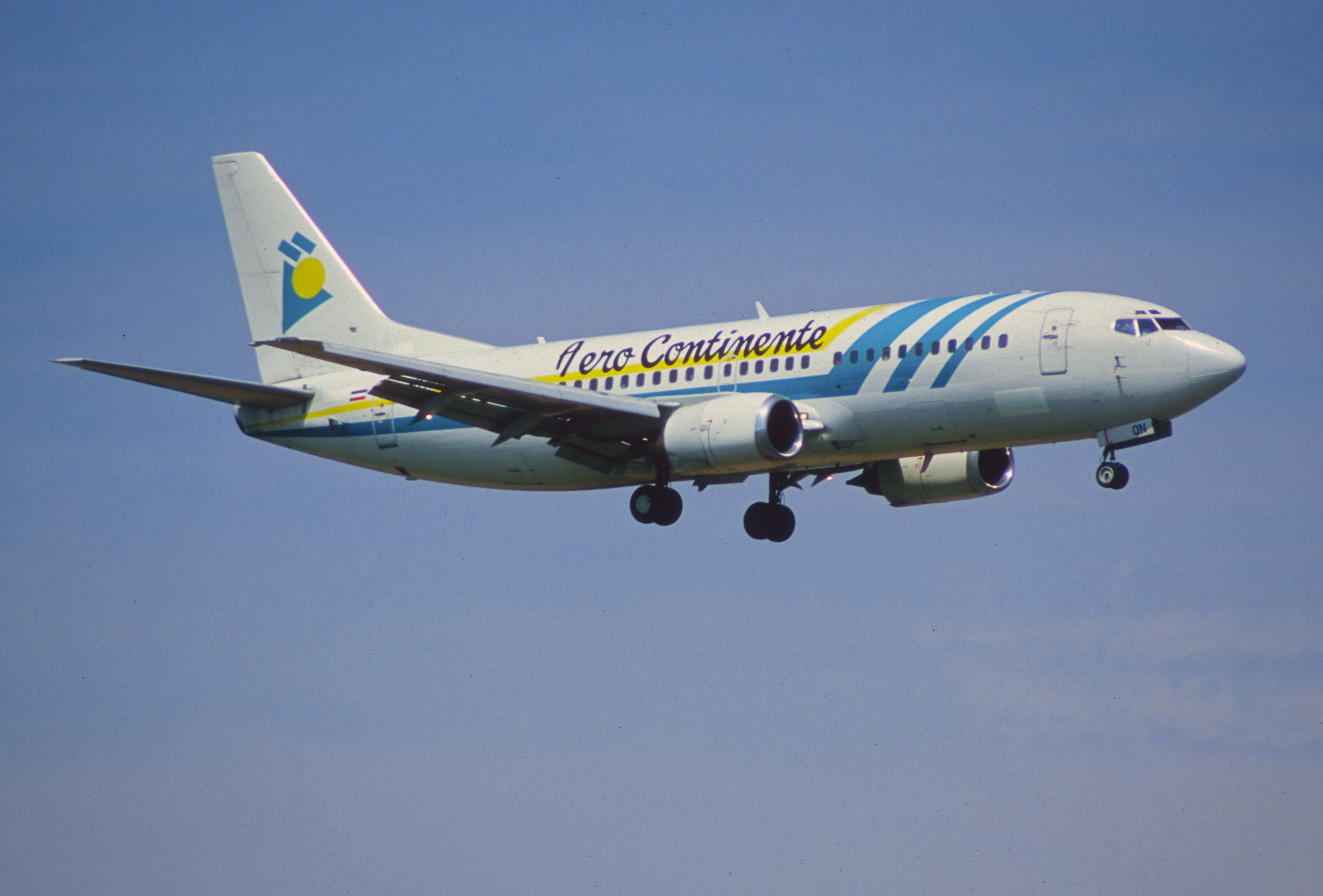 311ae - Aero Continente (Jat Airways) Boeing 737-3Q4; YU-AON@ZRH;08.08.2004